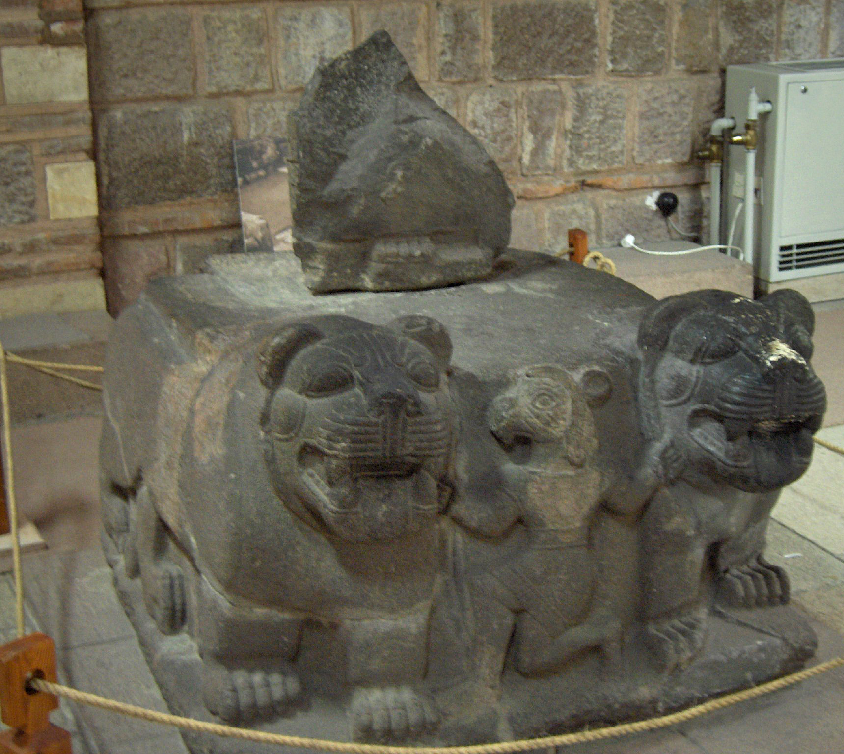 Basalt pedestal of a statue; Carchemish; 9th c. BC; Museum of Anatolian Civilizations, Ankara, Turkey